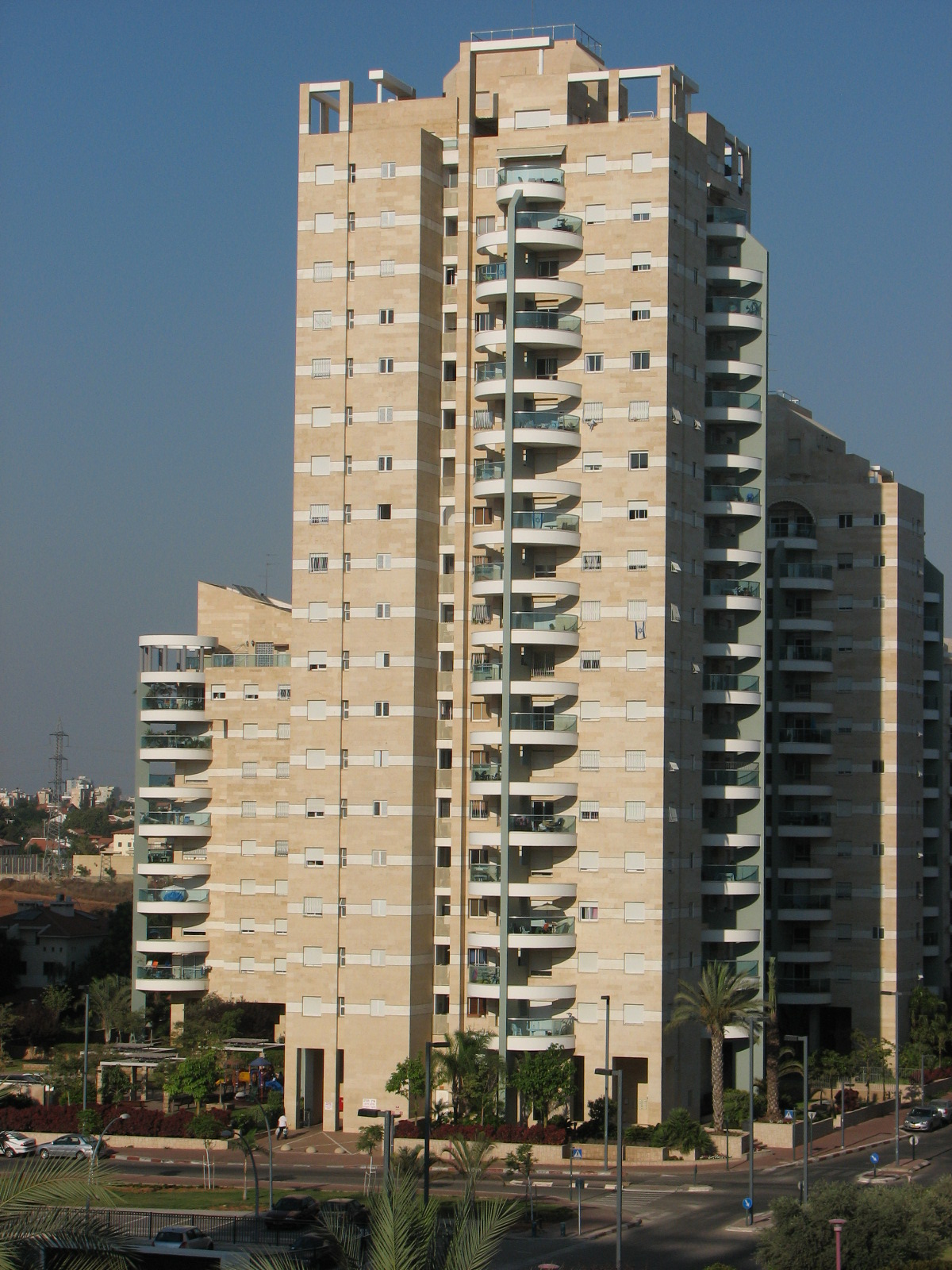 Typical residential tower in Giv'at Shmuel